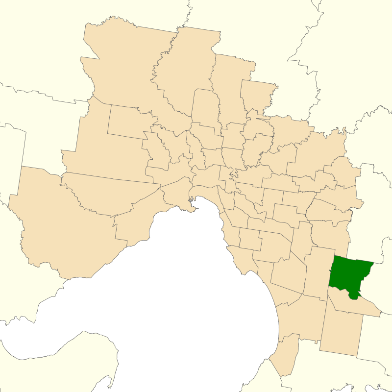 Location of the Victorian electoral district of Narre Warren North (dark green) in the Greater Melbourne area.